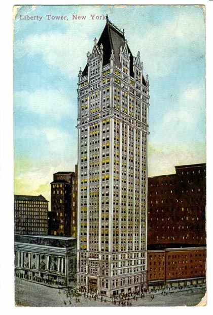 Liberty Tower on 55 Liberty Street in New York